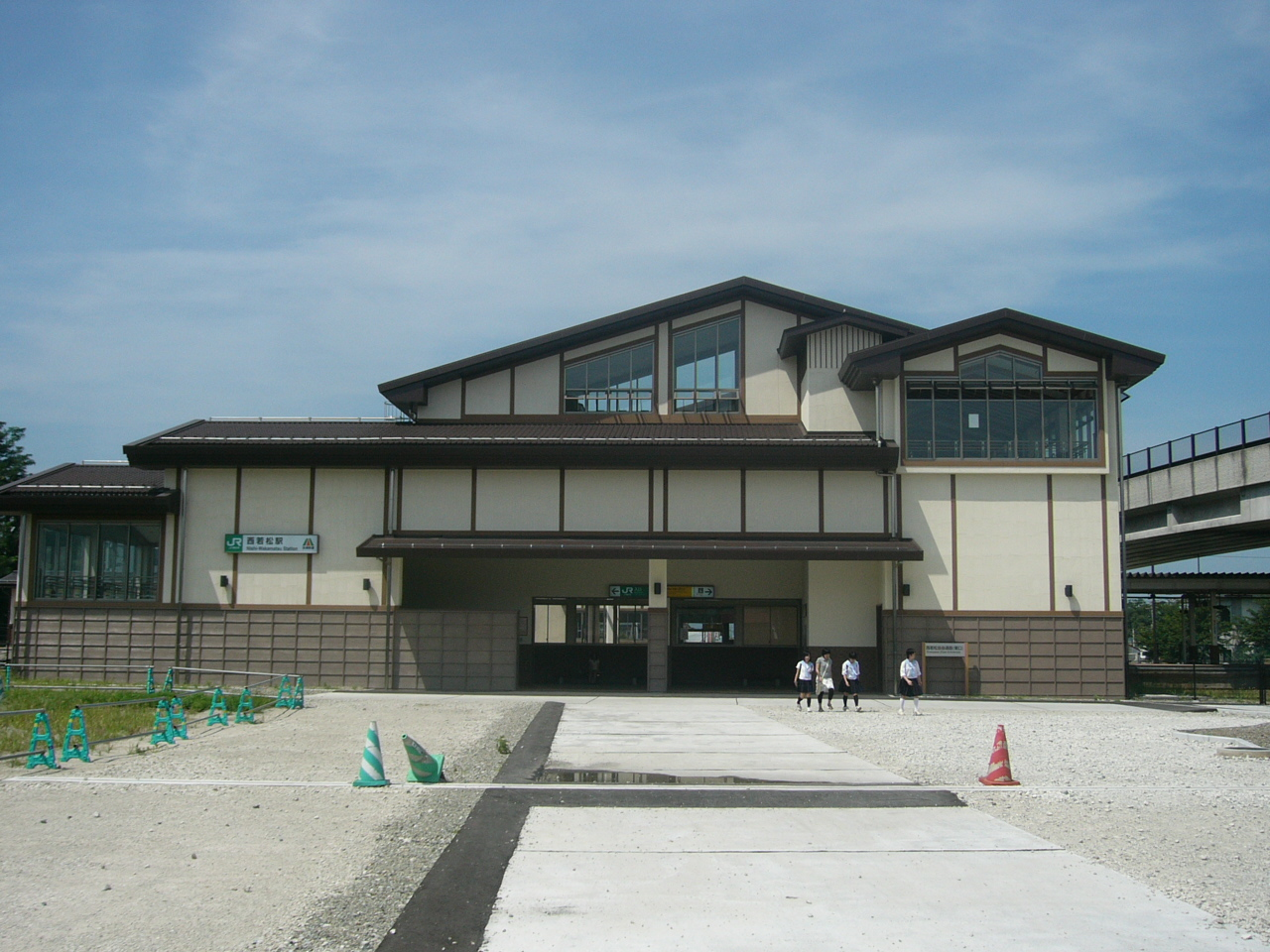 Nishi-Wakamatsu Station (East Entrance)